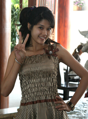 Miss Vietnam 2007 Thu Thi Minh Dang, in Miss World 07, Sanya China